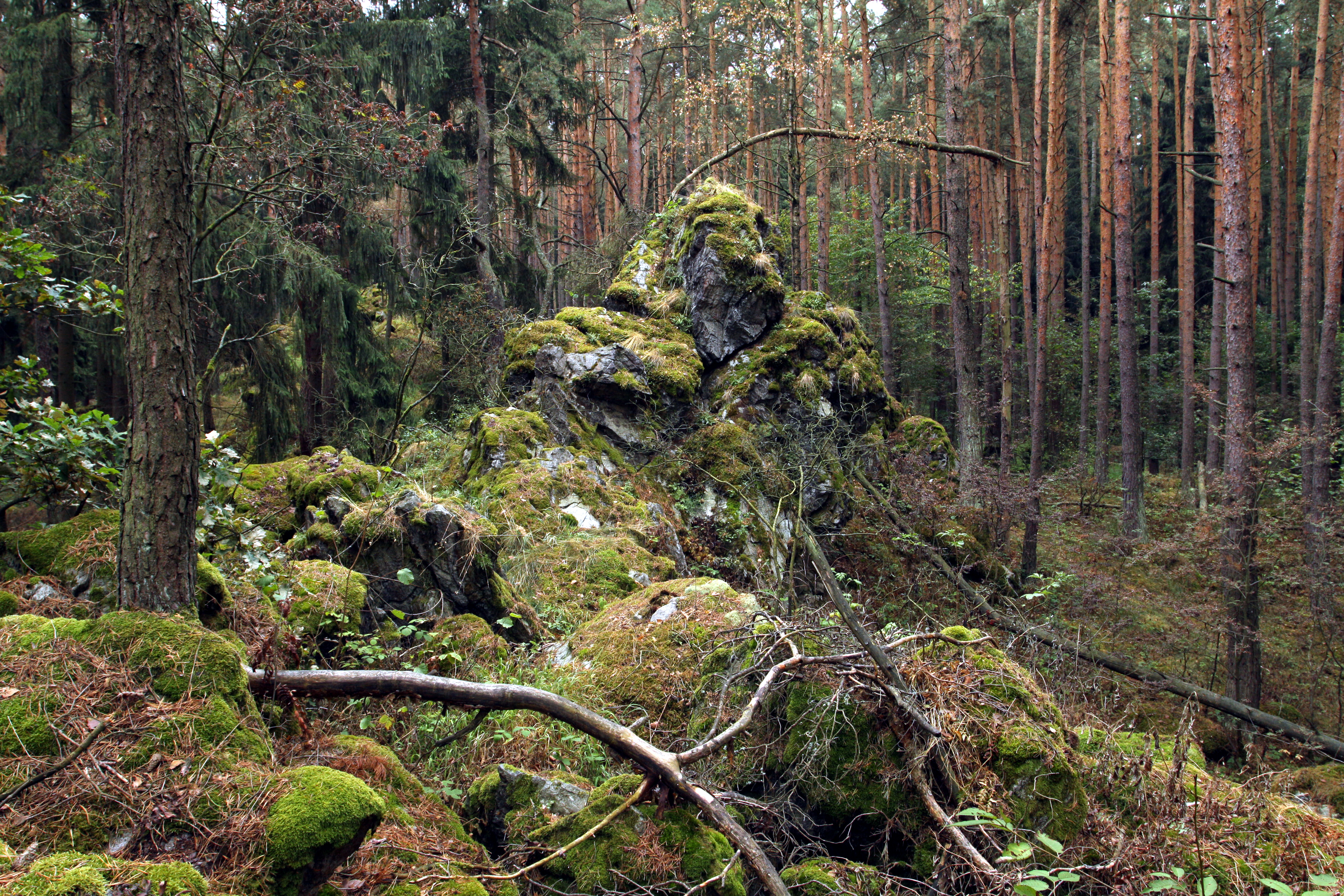 Nature reserve Drahotinský les near Drahotín village in Domažlice District, Czech Republic